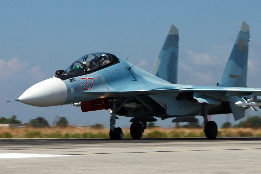 Russian military aircraft at Latakia, Syria